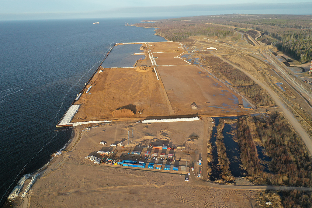 Novotrans Ust-Luga